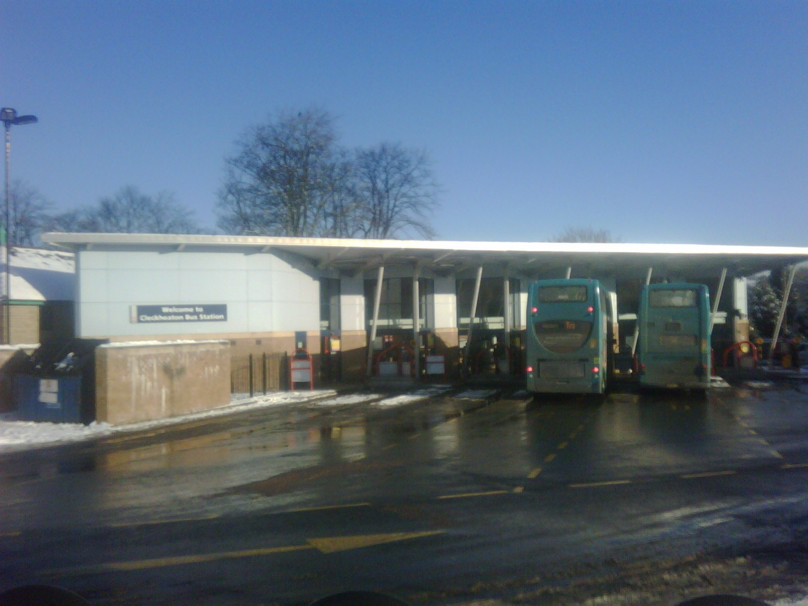 Cleckheaton bus station, Cleckheaton, West Yorkshire. Taken on the morning of Thursday the 7th of January 2010.